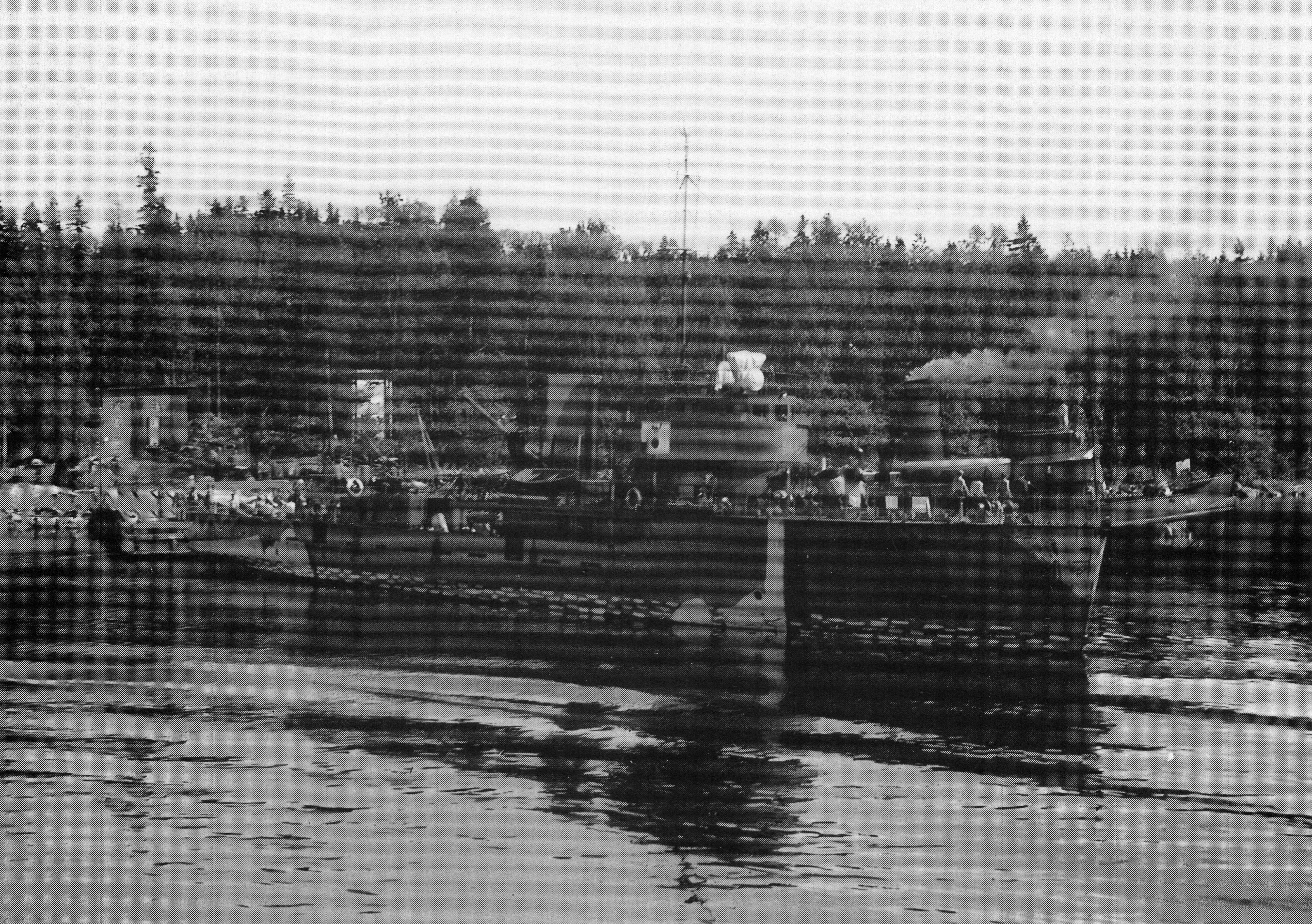 Riilahti Minelayer on 18th of June 1942